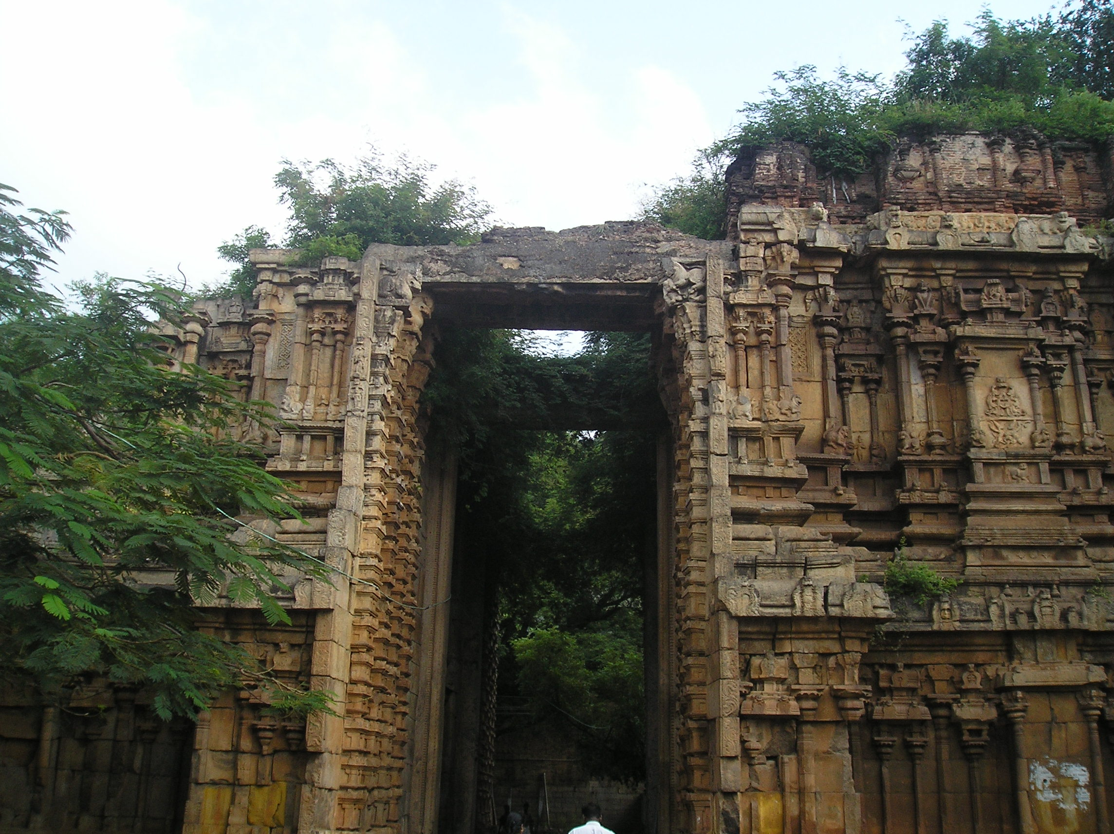 Azhagar Kovil